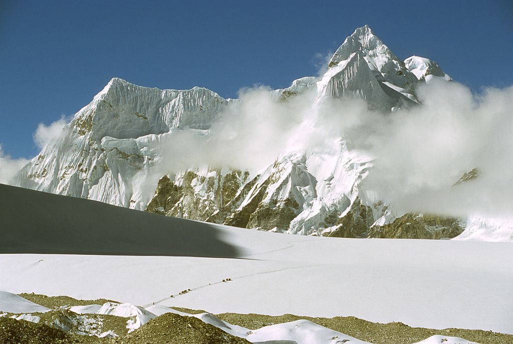 Pilgrims passing the Nangpa La pass between China and Nepal, near Cho-Oyu. In the background Lunag Ri. View from Cho Oyu basecamp [1]